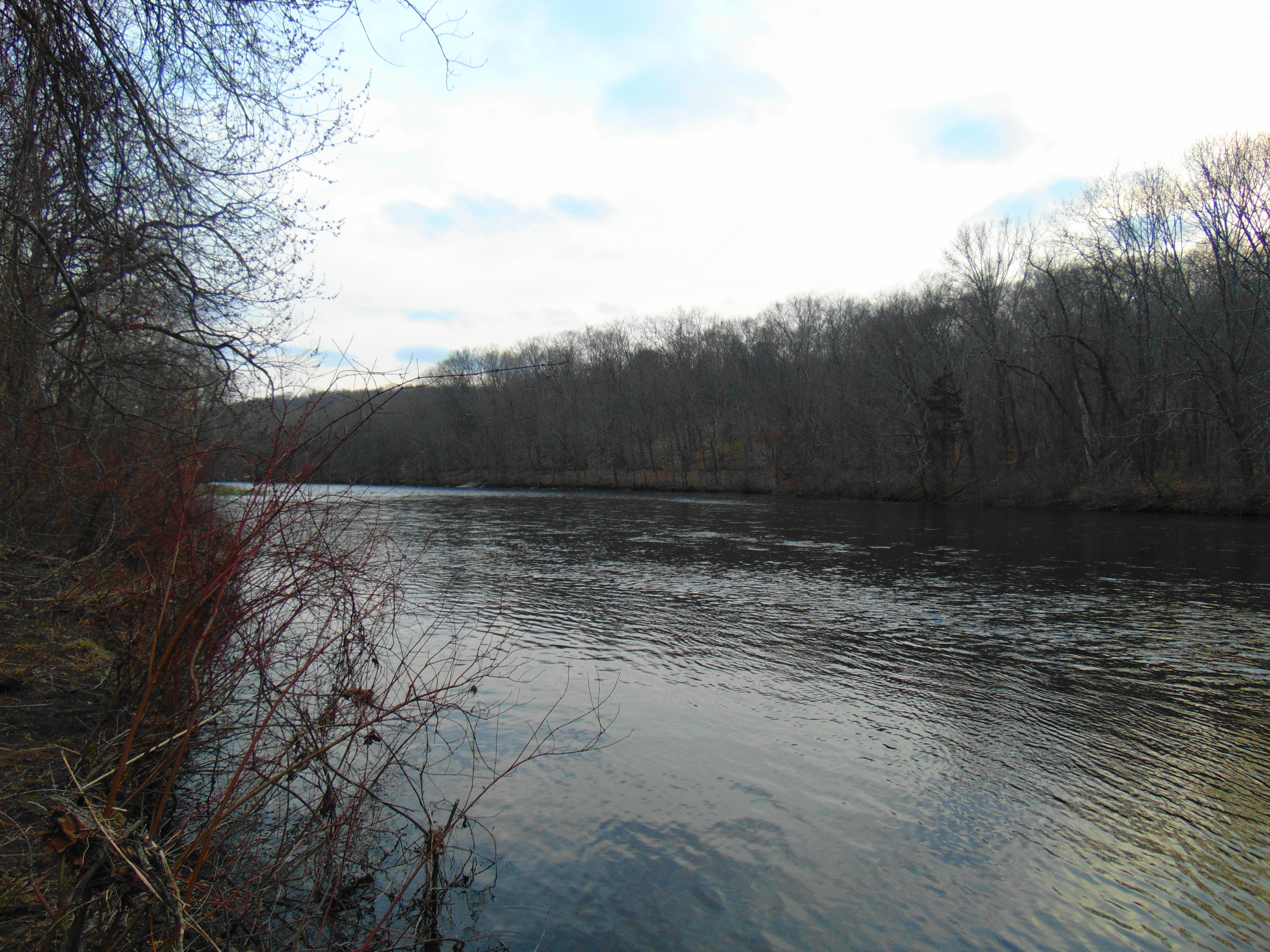 The Shetucket River at Salt Rock State Campground in Baltic, Connecticut.